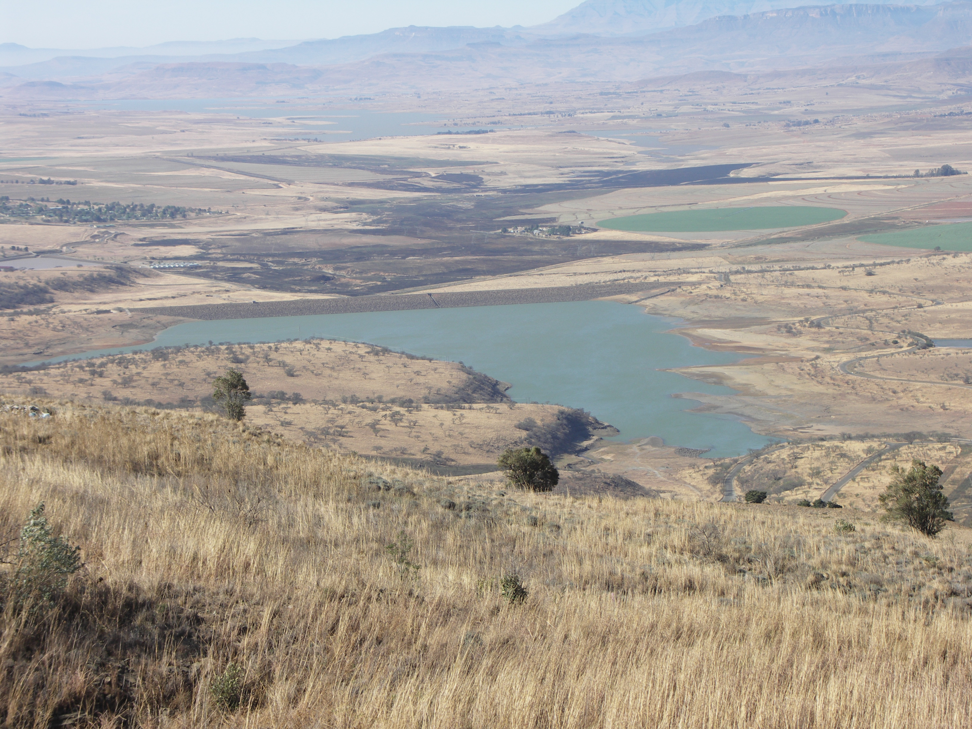 The Kilburn Dam in the KwaZulu-Natal, South Africa. Located 500m below the Sterkfontein Dam and is part of the Tugela-Vaal Water Project